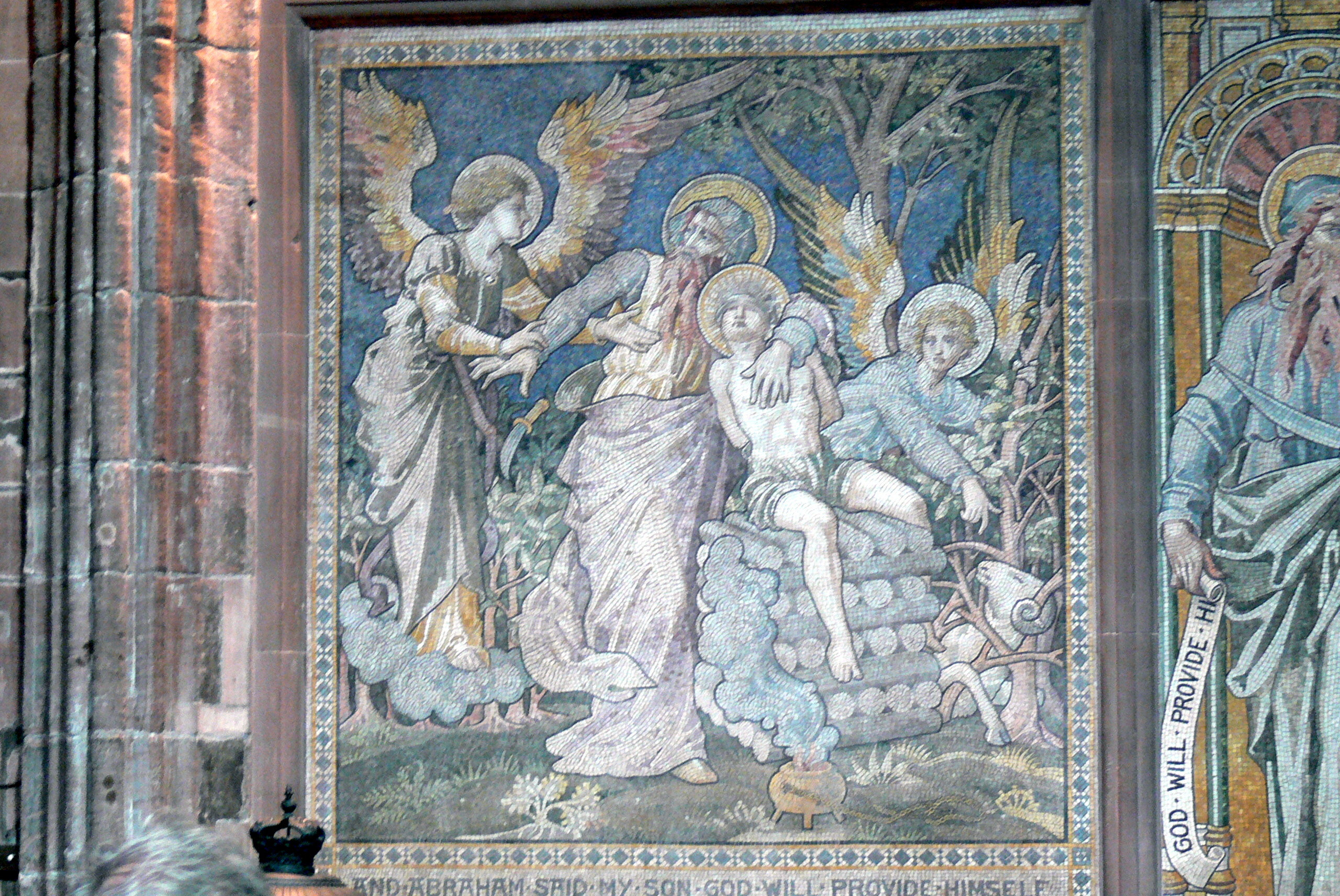 Chester (England). Cathedral: Northern aisle - Mosaics (1883) showing the sacrifice of Isaac.